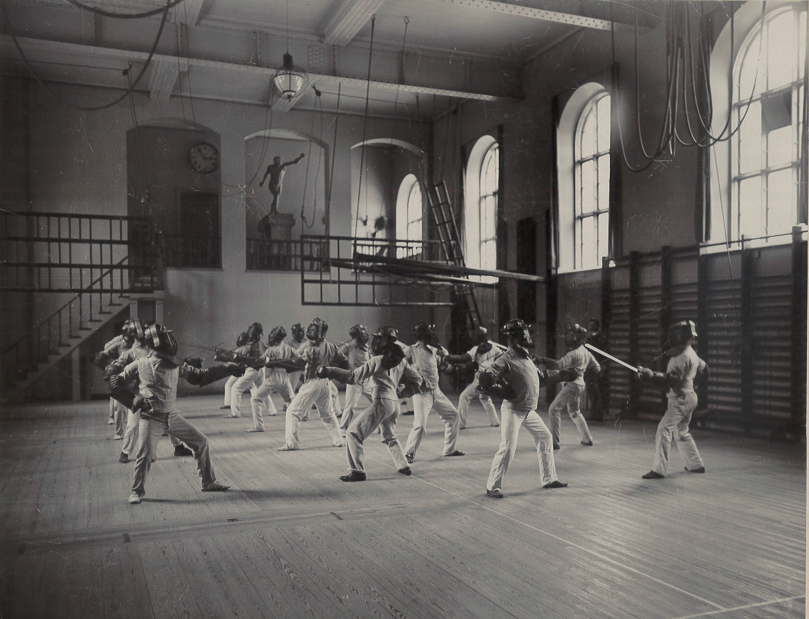 Fencing at the school Östermalms läroverk in Stockholm 1890s(?).